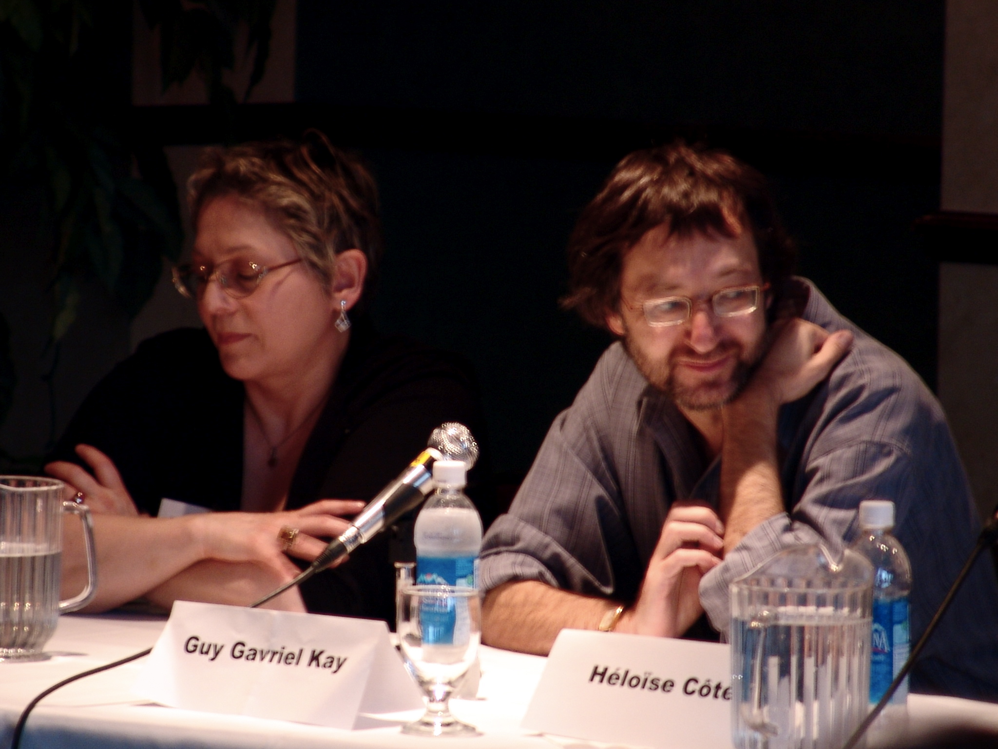 Elisabeth Vonarburg + Guy Gavriel Kay Congres Boreal